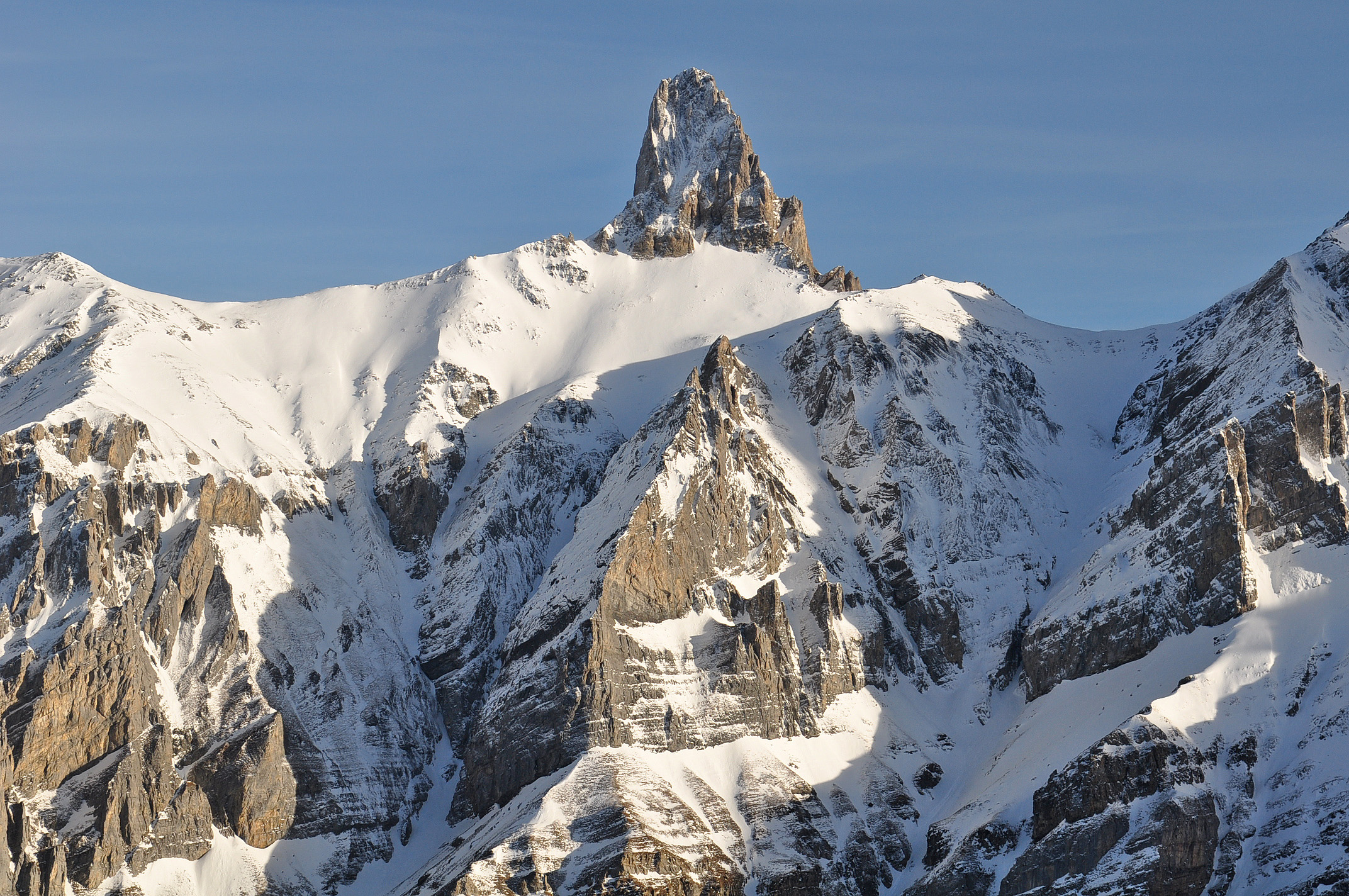 The Petit Muveran, from the north side (Vaud).